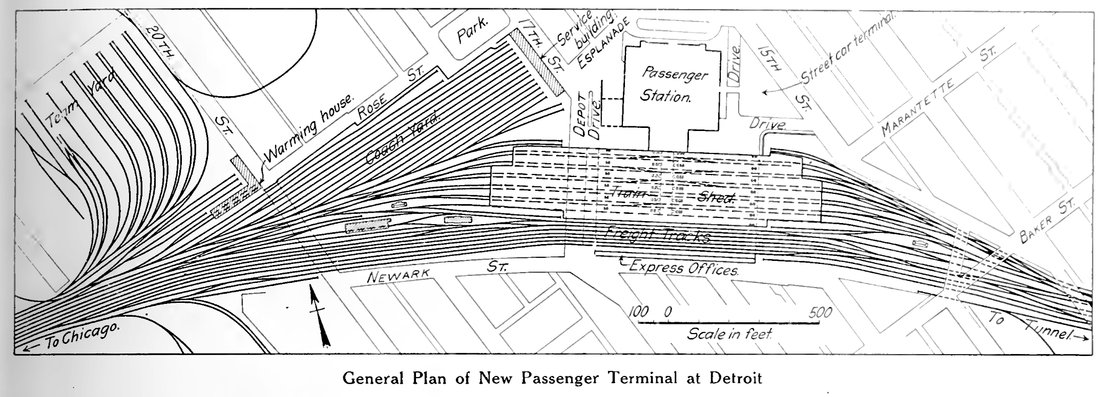 General Plan of New Passenger Terminal at Detroit